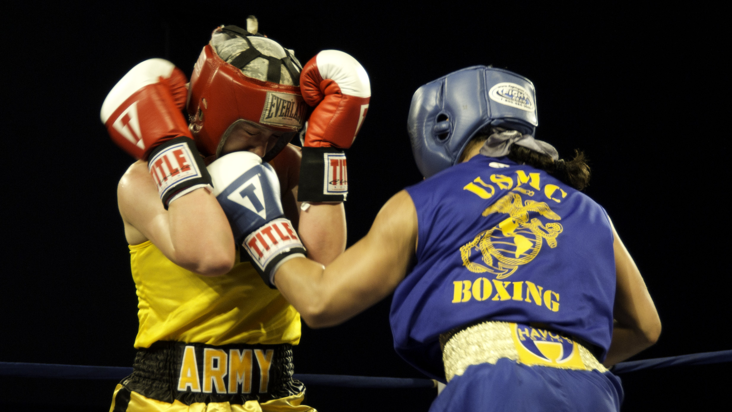 U.S. Marine Corps Lance Cpl. Melissa Parker, right, strikes Army Spc. Carrie Barry at the 2011 Armed Forces Boxing Championship at the Chaparral Fitness Center at Lackland Air Force Base in Texas Feb. 18, 2011. The winners of the tournament were eligible to try out for the U.S. Olympic Team.